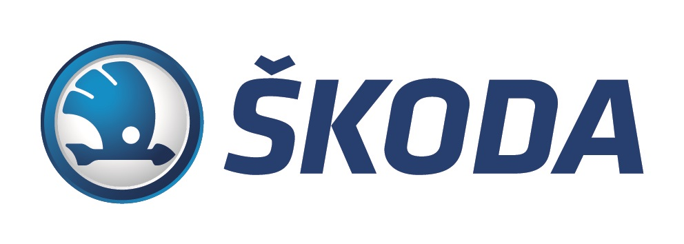 Logo of Škoda Transportation